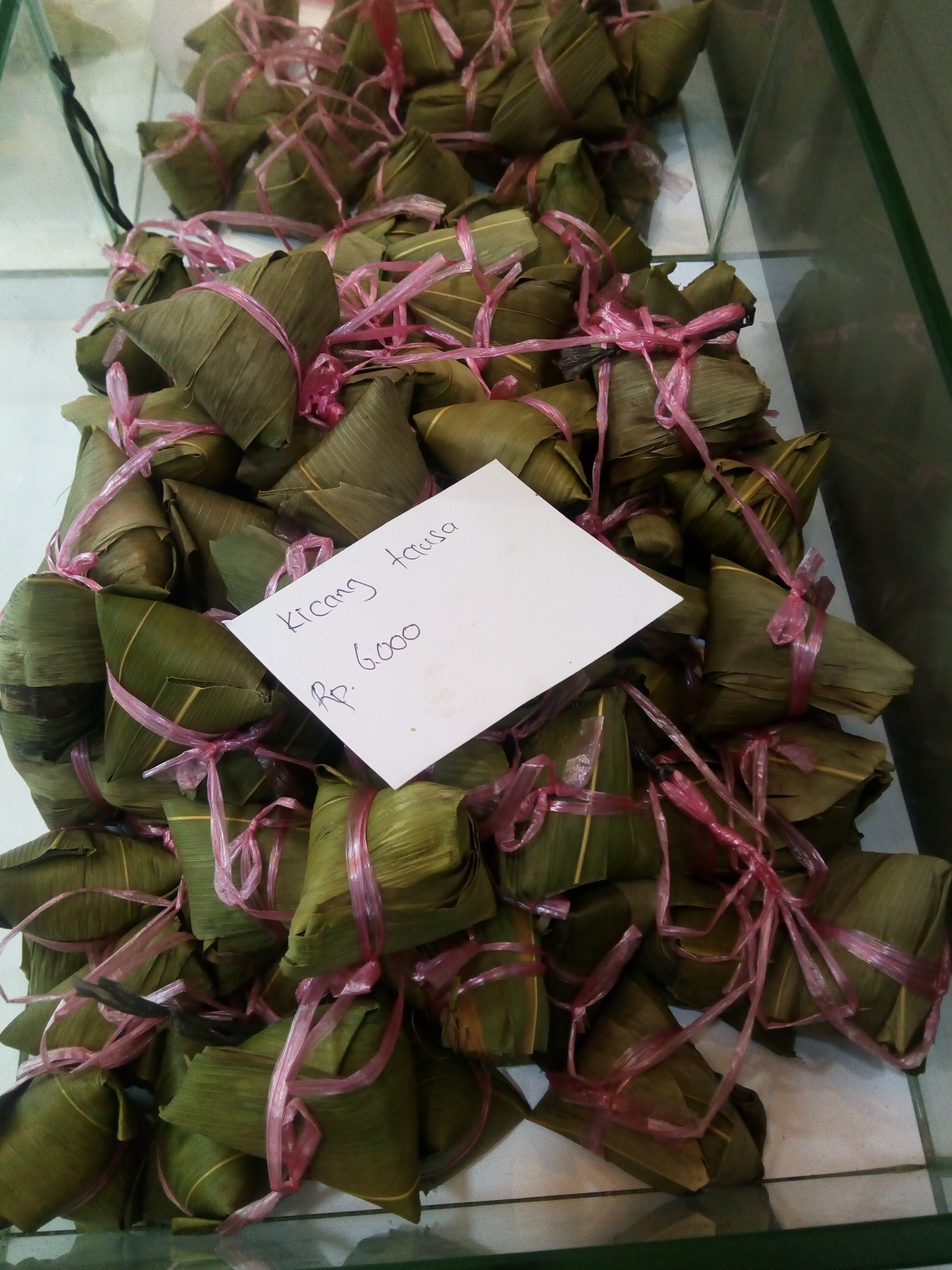 Kicang, small size zongzi sold in Batam, Riau Island. Bân-lâm-gú: kiⁿ-chàng